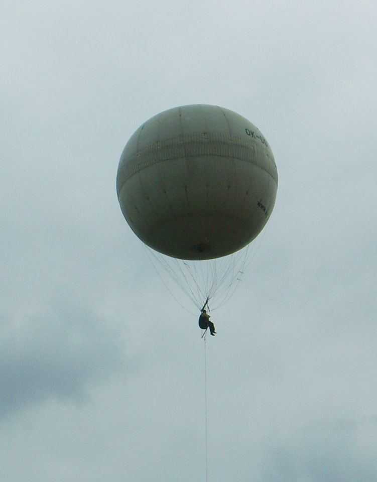 Helium balloon for 2 people